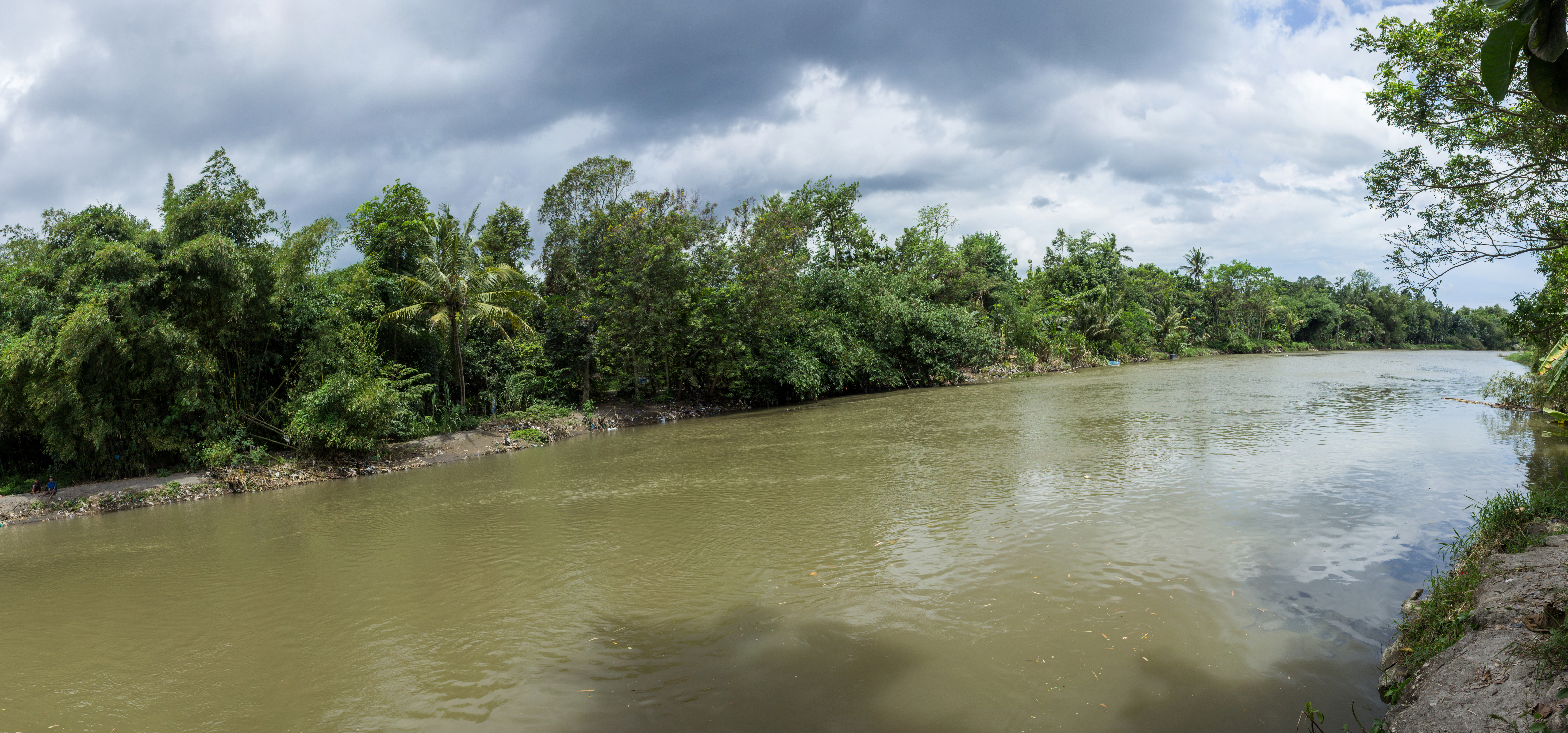 Opak River from near Watu Ngelak